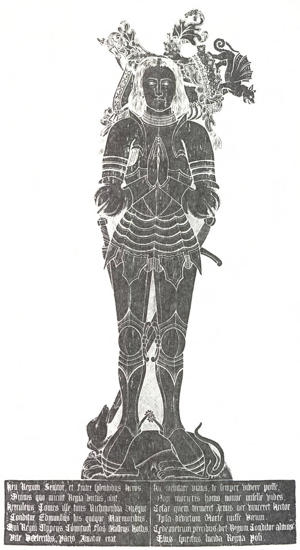 Brass rubbing of tomb of Edmund Tudor, St David's Cathedral, Pembrokeshire